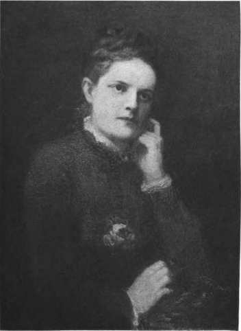 Margaret Swan Cheney (September 8, 1855 – September 22, 1882). She had been a student at the Massachusetts Institute of Technology (Boston, Massachusetts, USA). A room in the Technology building was fitted up and named for her, the Margaret Swan Cheney Reading Room. Daughter of Ednah Dow Littlehale Cheney and Seth Wells Cheney.